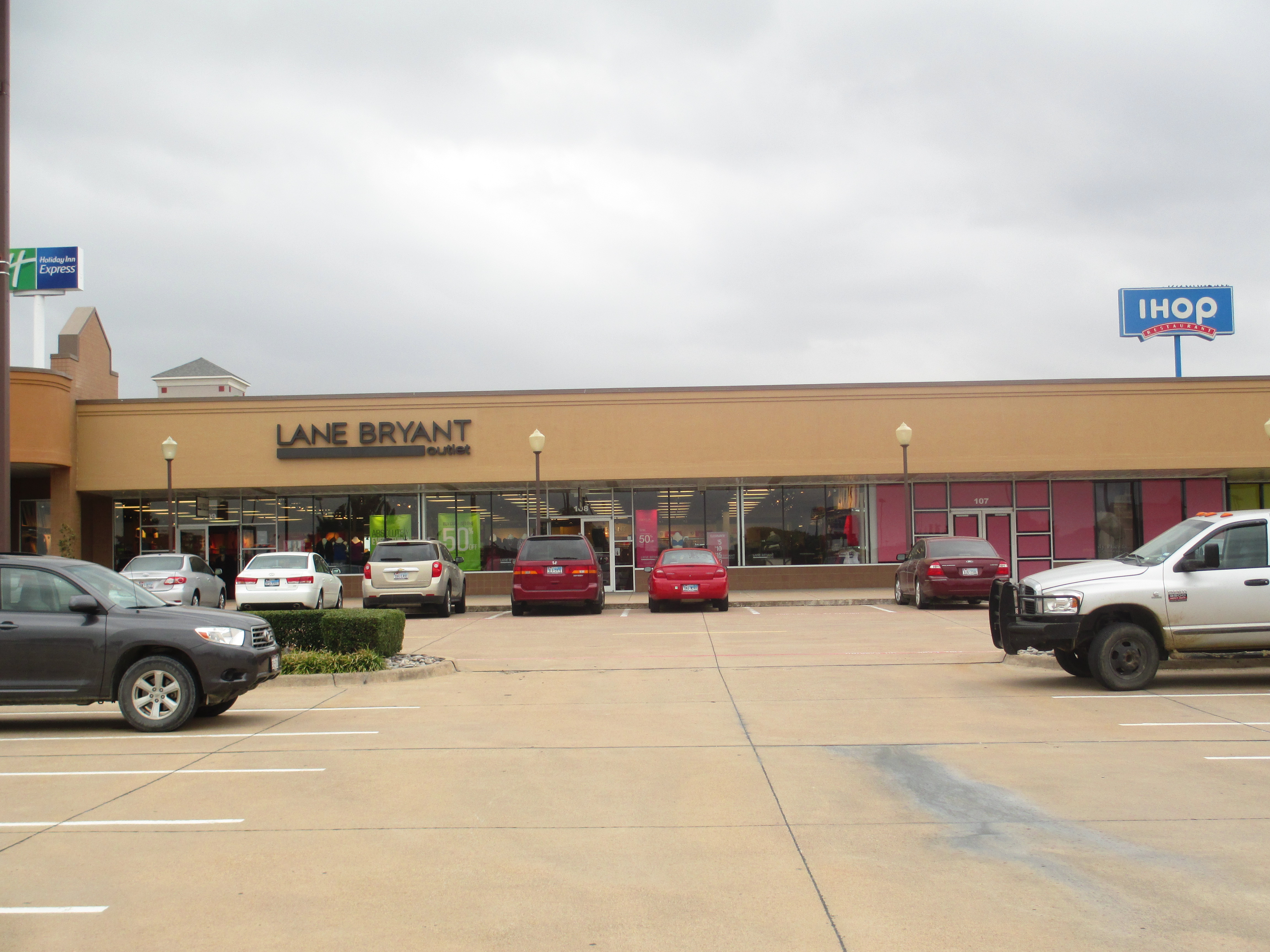 Outlet Mall in Hillsboro, TX